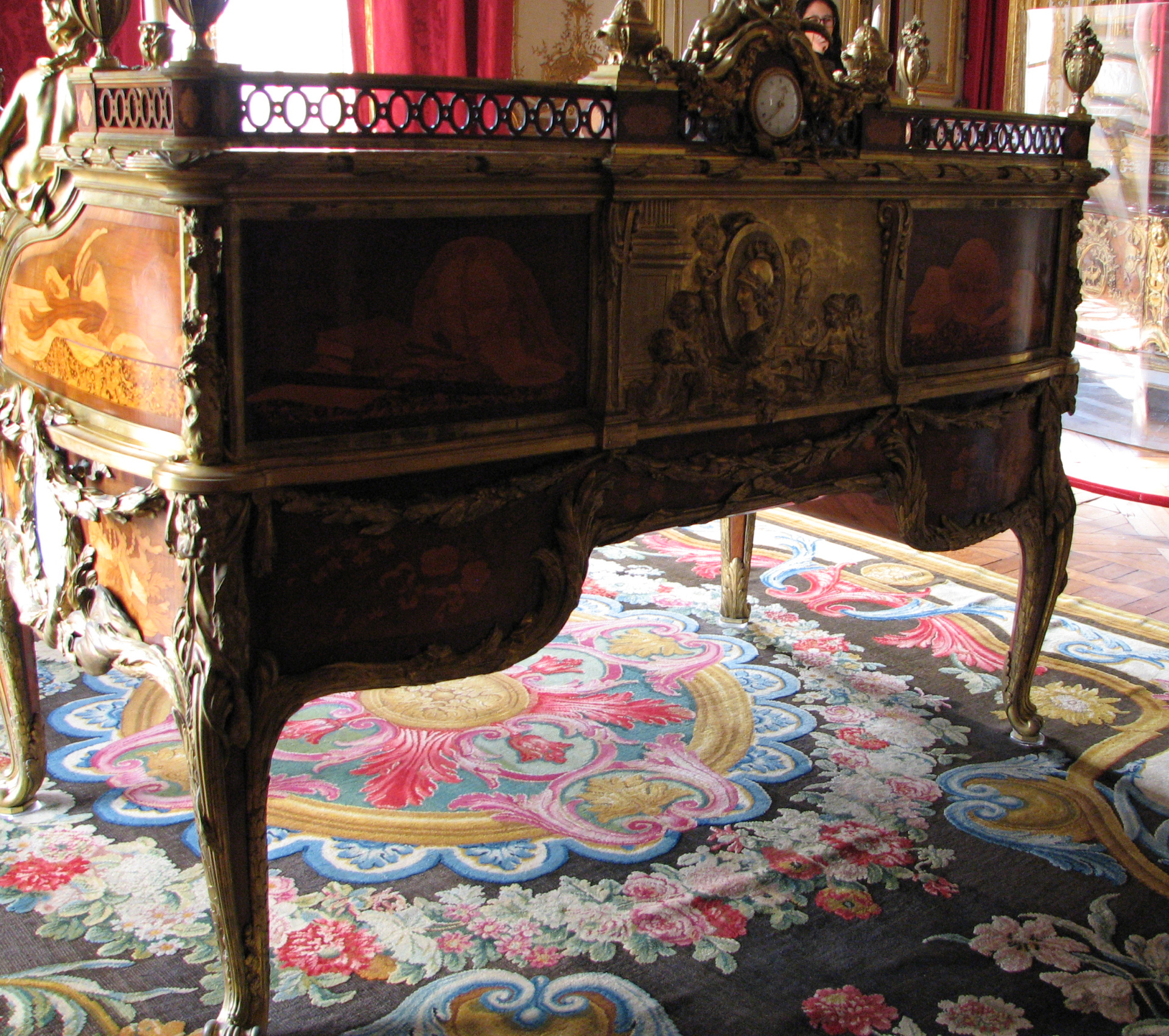 Bureau du Roi, back side